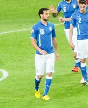 Azerbaijan-Italy, 10 September 2015, Marco Parolo.